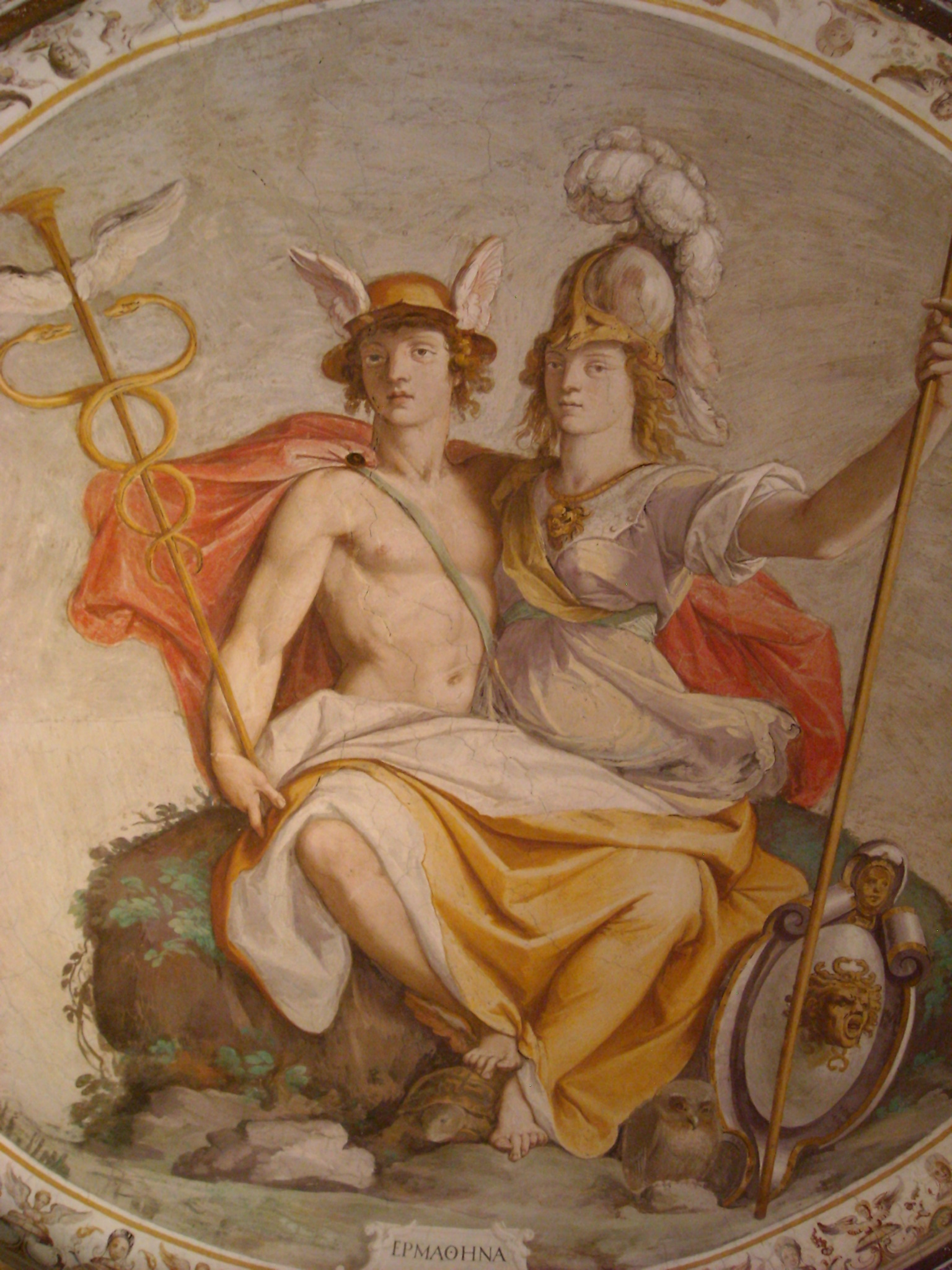 Dedicated to the study room. Decorated with Hermes and Athena (in Roman mythology Mercury and Minerva), presides over the dome, while the crests are instruments of science and the arts. All this was done by Federico Zuccaro between 1566 and 1569. The representation of these two gods, or fused together as a single form (Hermathena), was widely used in classical iconography, as Hermes represented eloquence and Athena wisdom, the arts and sciences.